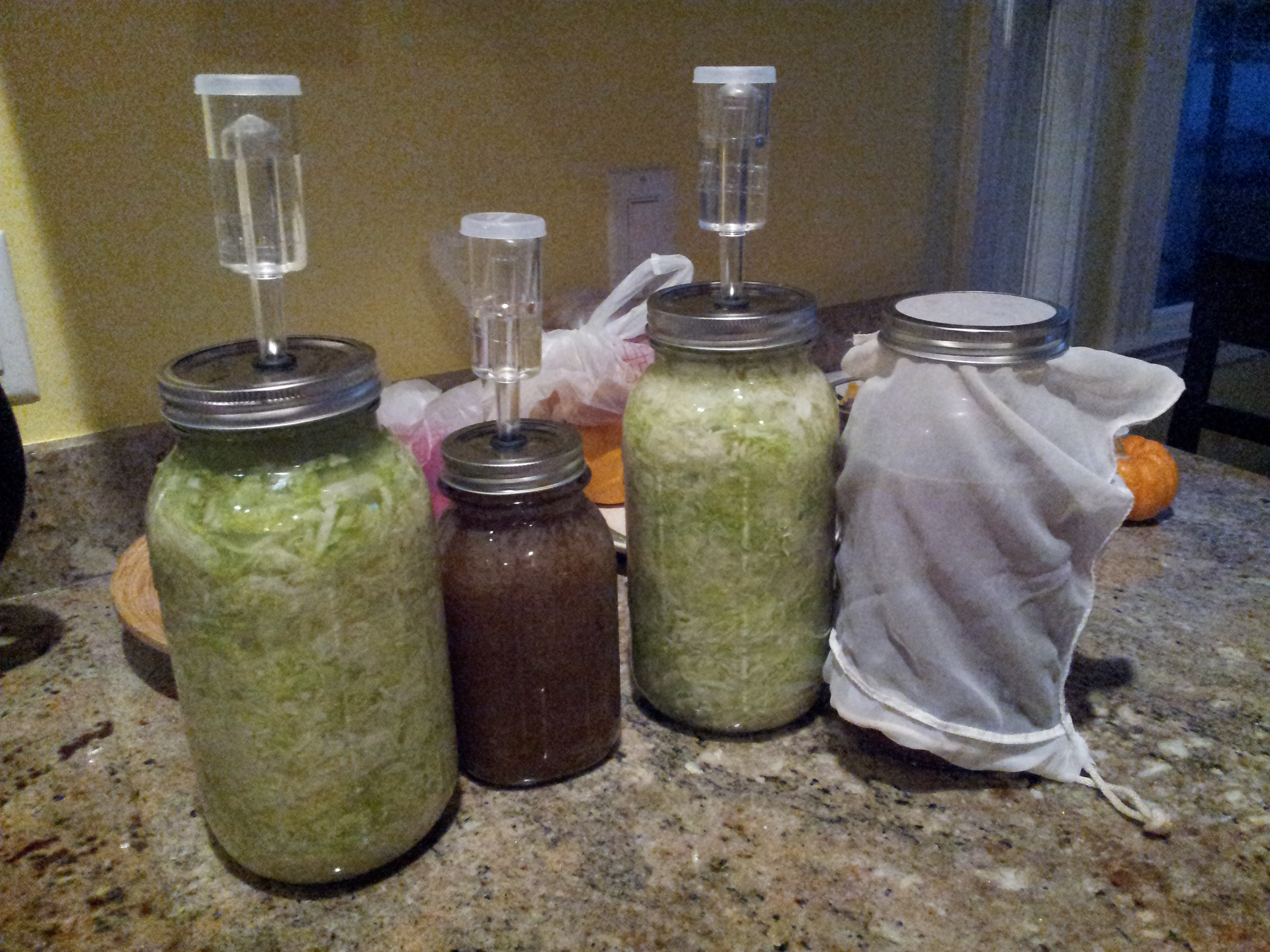 Jars of various things fermenting, especially sauerkraut.